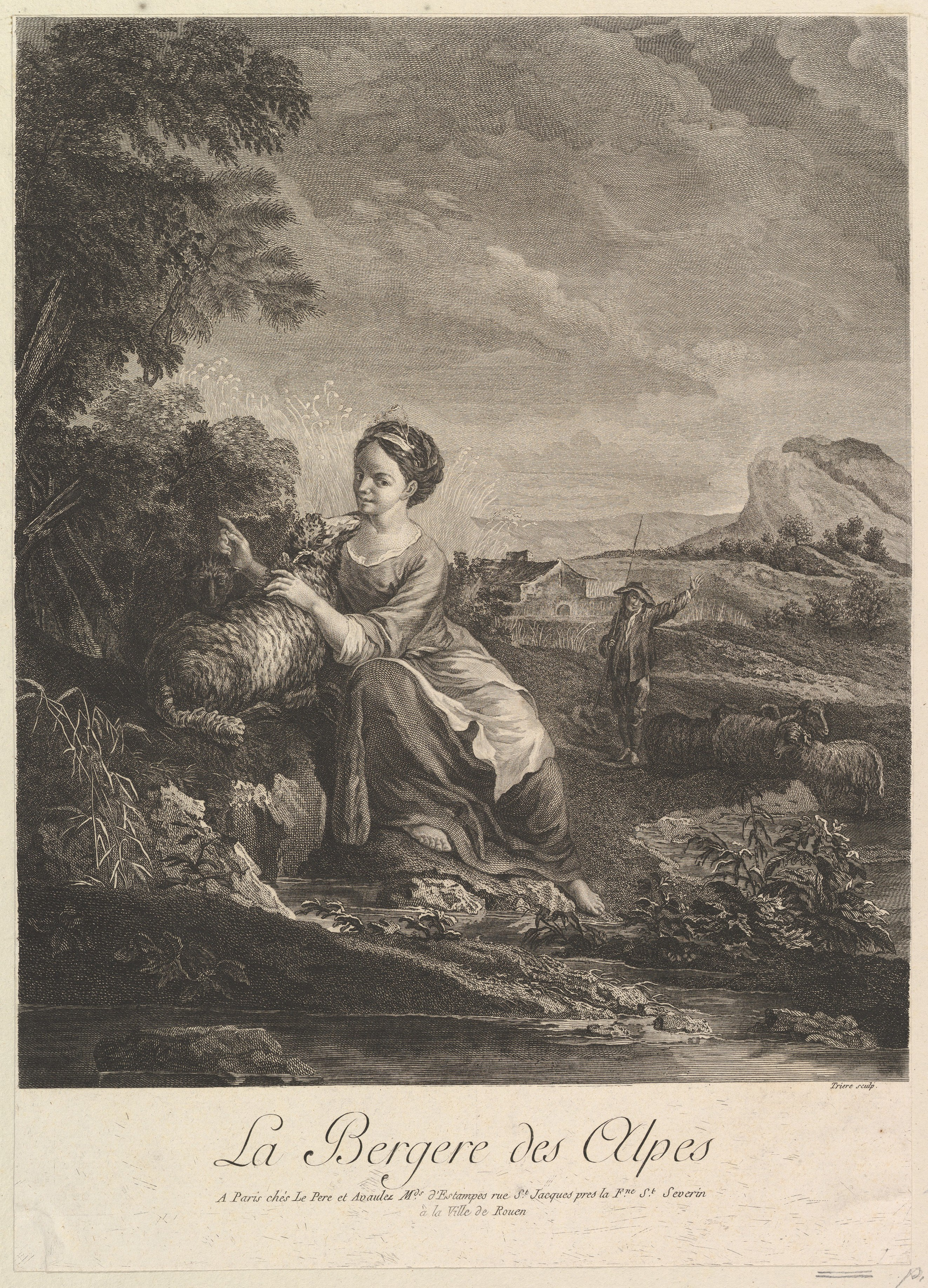 Print; Prints